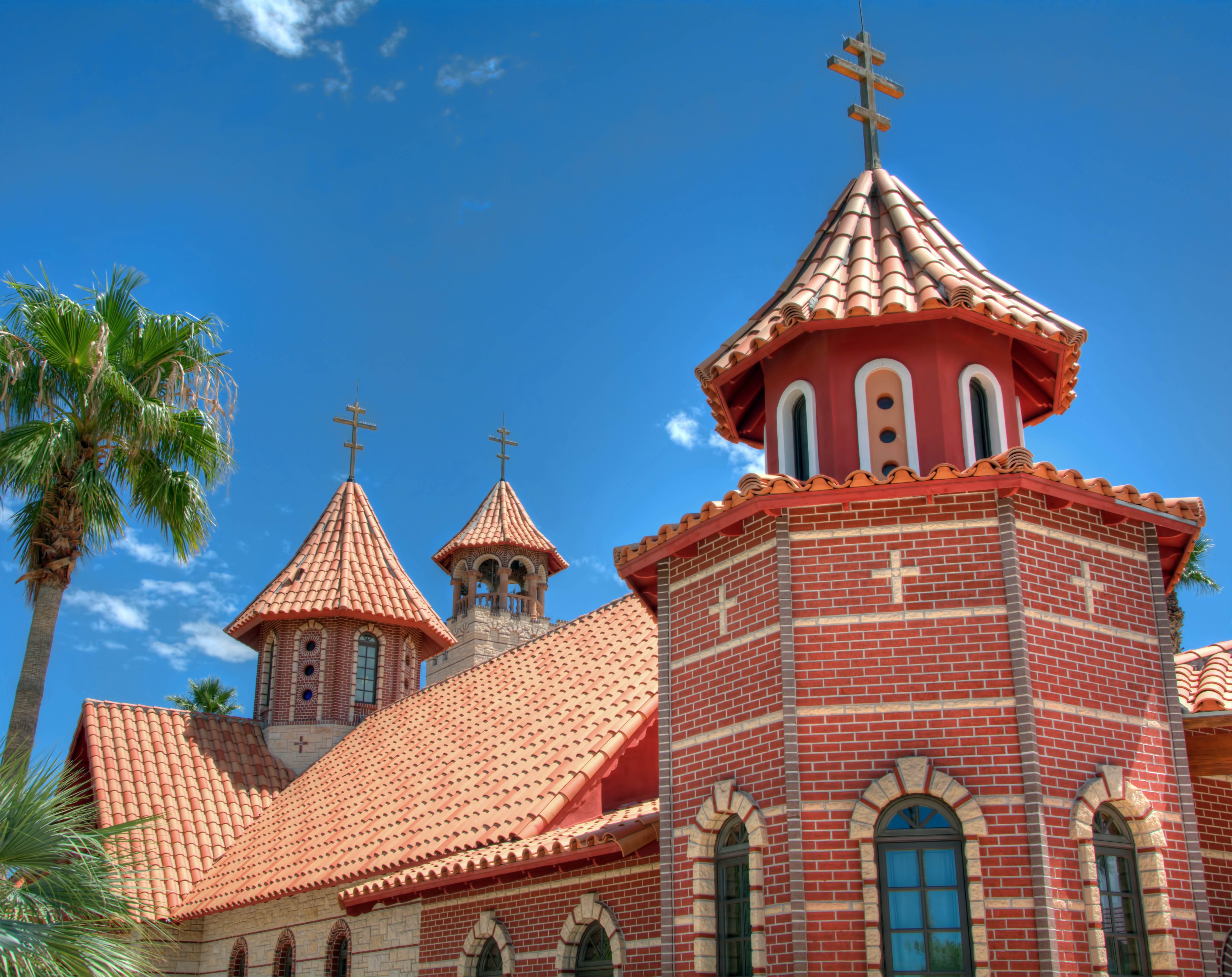 St. Anthony's Monastery - St. George's Chapel - Roof